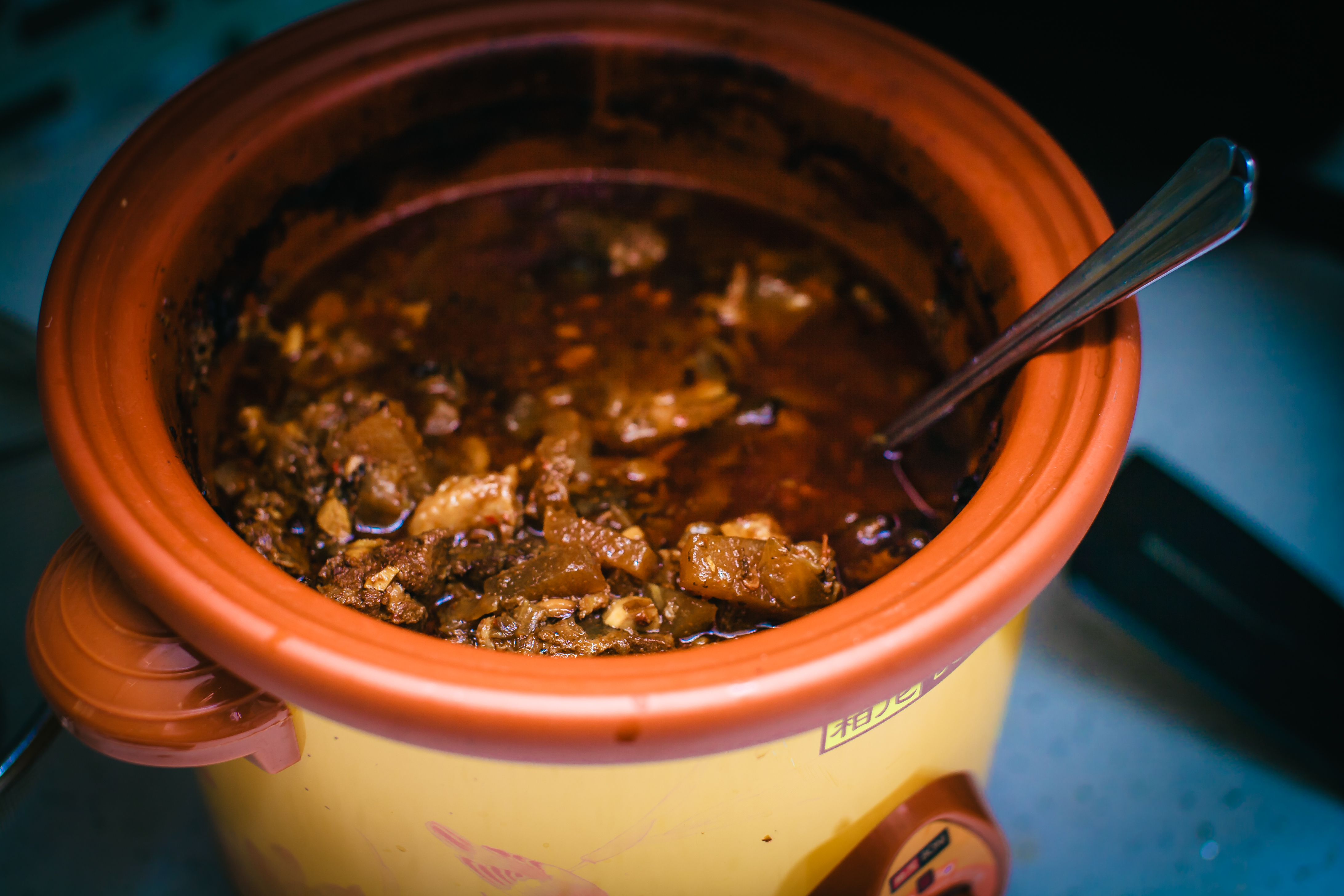 I threw all these ingredients into the slow-cooker 6 pm last night. Hungry, I checked it at 7 pm: tasted disappointing. Then I slept till 8:30 am, went back to bed, and then at 12:30 pm I decided I suddenly remembered I had food in a slow cooker and went out into my 2nd floor hallway. I instantly could smell this delicious smell. "Whoa, is someone else cooking?" But downstairs, the kitchen was empty, except for my slow cooker, which was still on. I opened it and found that my caramelized onions had really caramelized to the point of blackness, the pork had fallen off the bone, the watery soup I had left at 7 pm had become this delicious, caramelized, thick stew. Method: Throw in pork stew bits (1.79/lb), add to slow cooker and fill with water until just covered. Add cubed daikon radish. In a wok or saucepan, fry one large onion (diced) in butter, letting the onions and butter scorch (but not to the point of burning). Add garlic and ginger as the onions brown. When the onions have reduced to less than one half their original size, and most of the water from the butter has evaporated, add garam masala and chili powder such that upon stirring, the onions start sticking to the pan. Let scorch until smoke starts rising: then deglaze with leftover wine (alt: mirin or fruit juice). Let reduce on high heat for 1-3 minutes. Then add the caramelized onion mixture to the slow cooker. Add in crushed Sichuan peppercorns. Sleep, go to work, or ignore slow cooker for 8-12 hours. When you are ready to eat it, add cilantro and Hondashi bonito powder (alternative: fish sauce, furikake or any salty ingredient to taste).